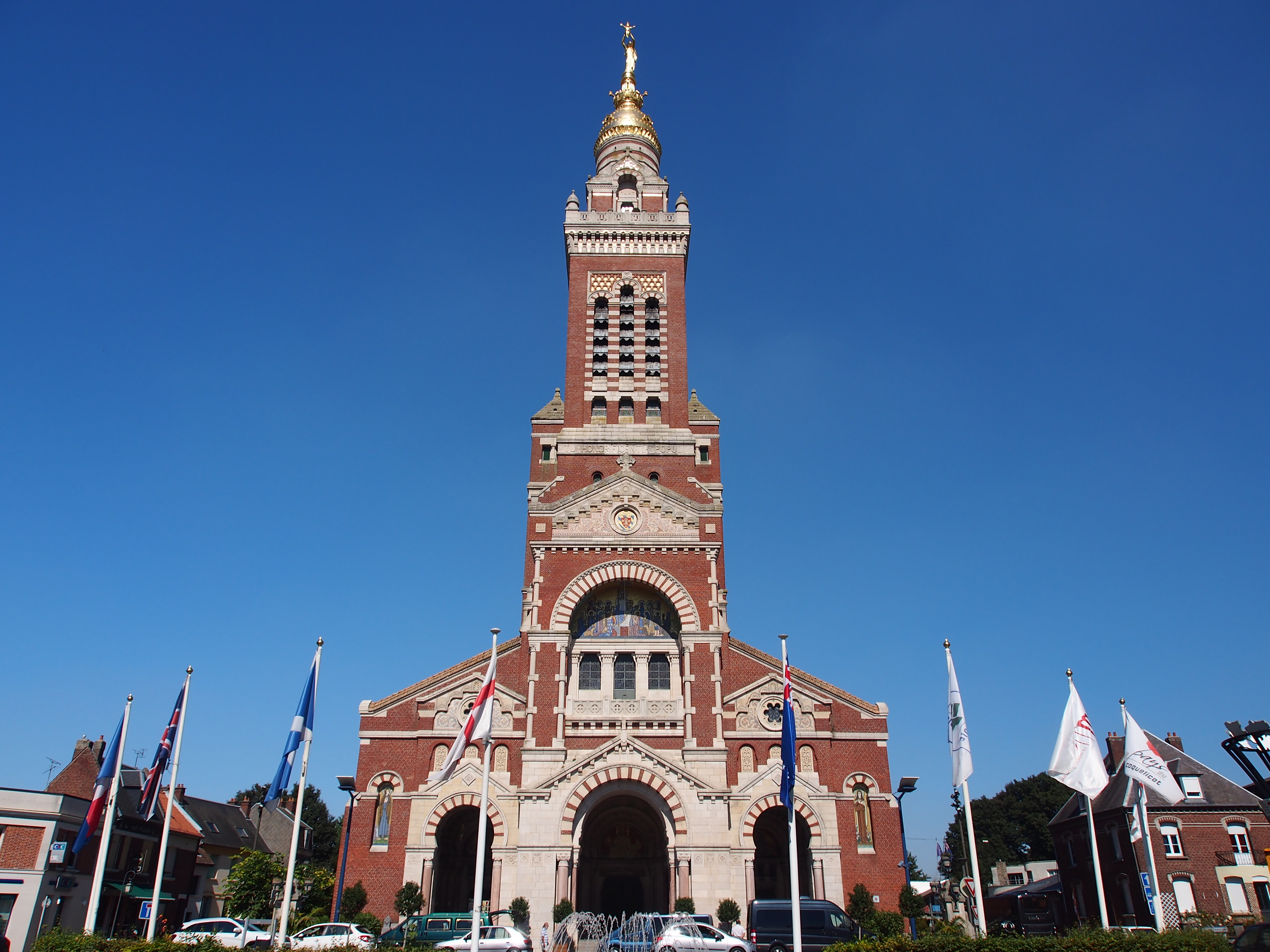 Basilique Notre-Dame de Brebières in Albert, Somme region, France.